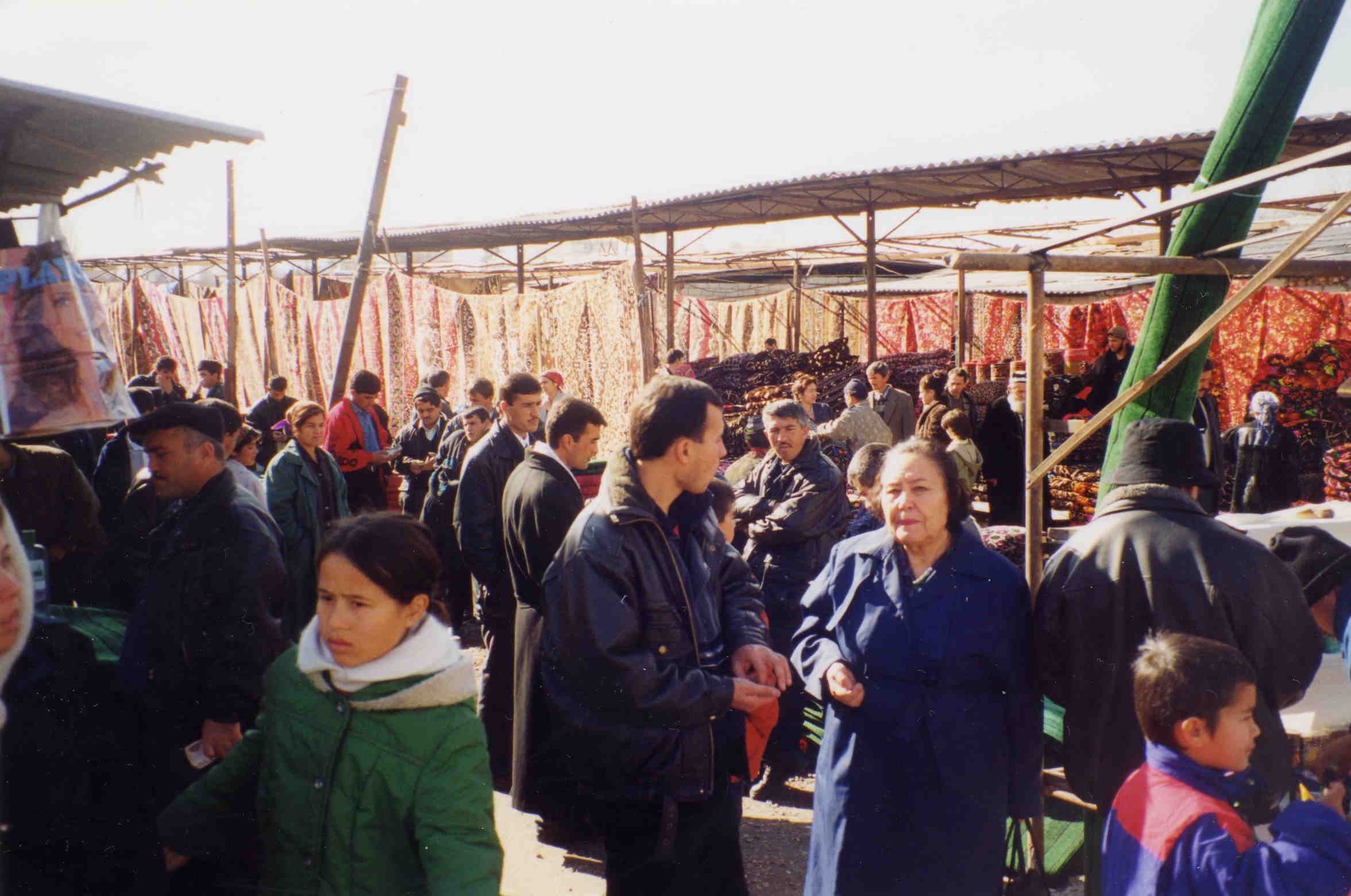 The Carpet Bazaar [ Dushanbe ].